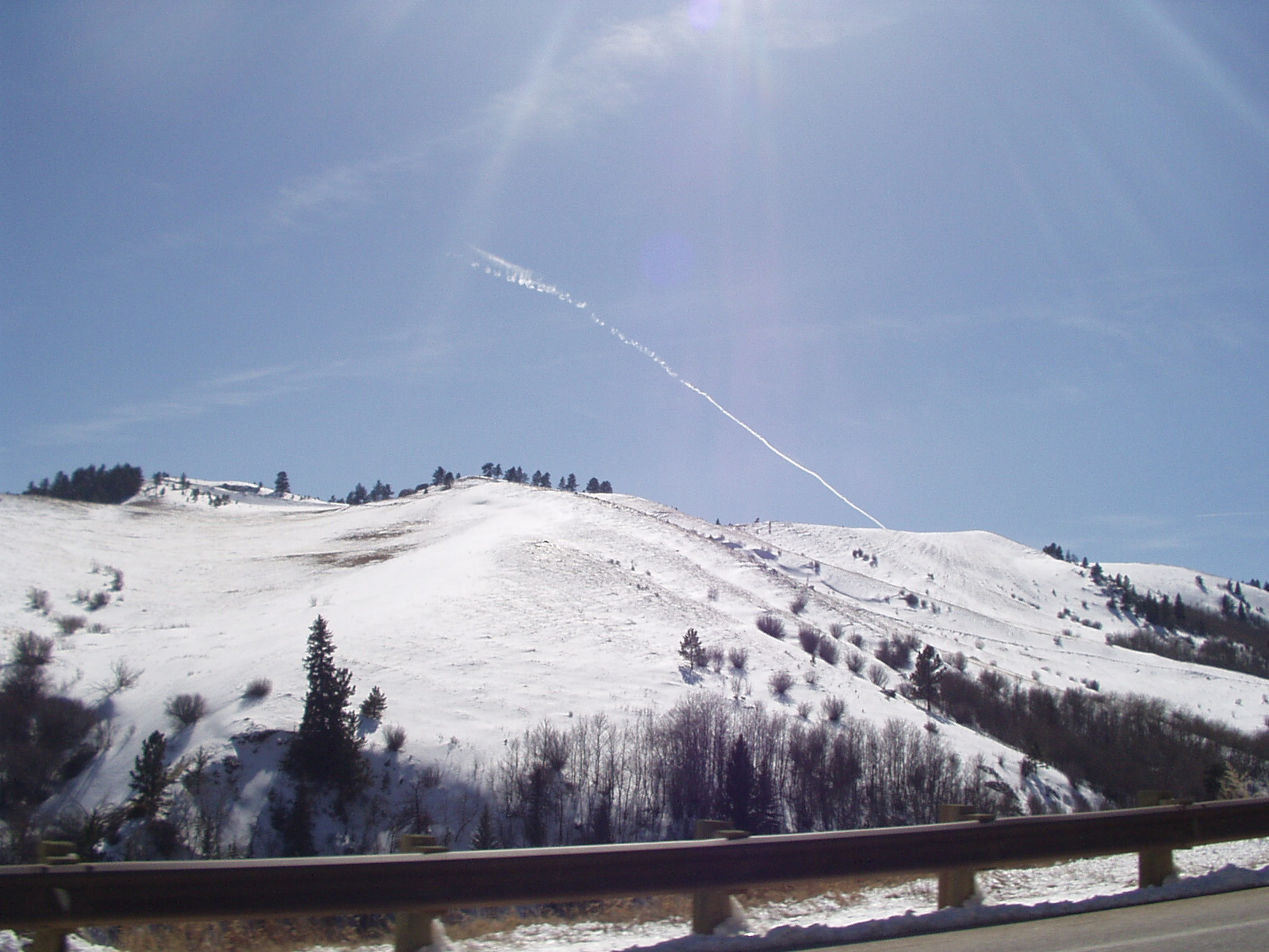 Bighorn Mountains just west of Buffalo, Wyoming in late March.